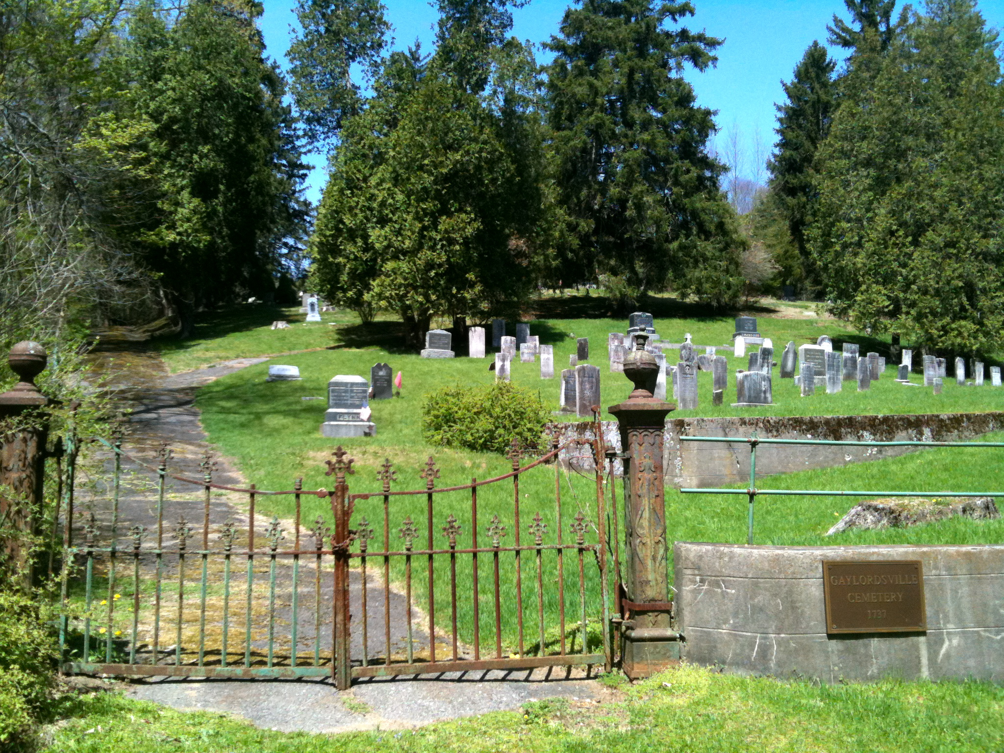 Housatonic Range Blue-Blazed Trail. Blue-Blazed CFPA linear foot path from Candlewood Mountain in New Milford and to Gaylordsville Cemetary in Gaylordsville. Gaylordsville Cemetary in Gaylordsville, Connecticut. Housatonic Range Trail northern terminus and parking.